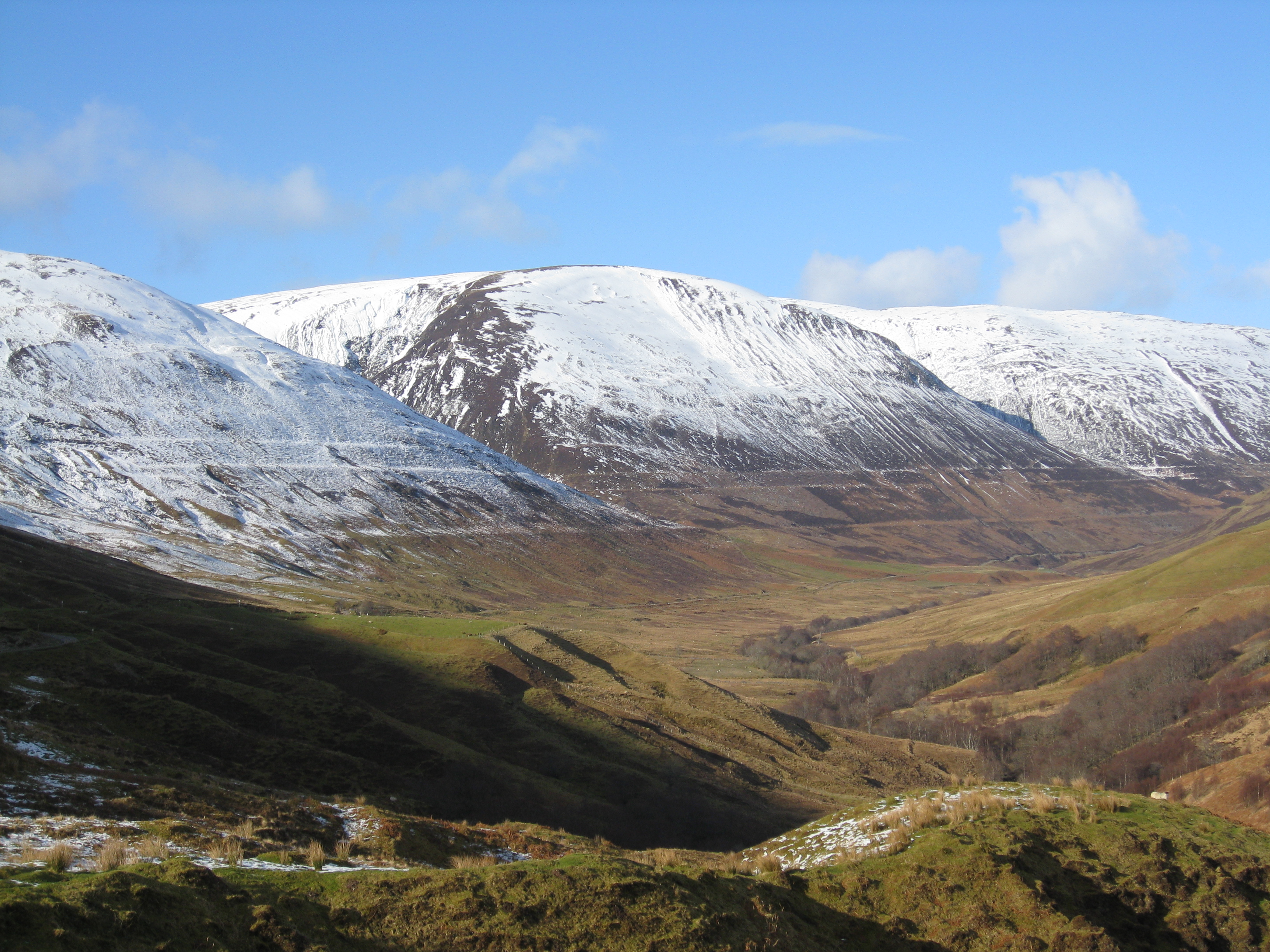 The Parallel Roads of Glen Roy, Highland Region, Scotland, highlighted by recent snowfall.